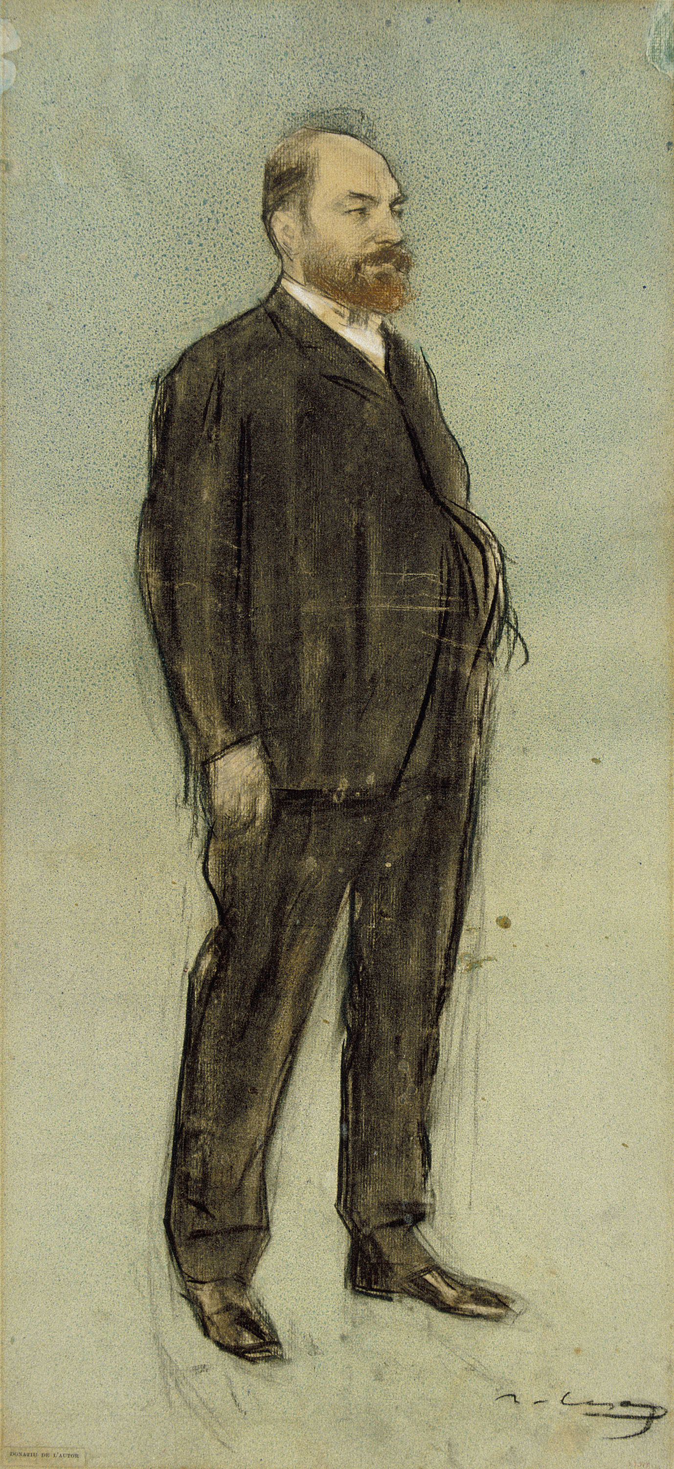 Portrait by Ramon Casas conserved at MNAC in Barcelona.